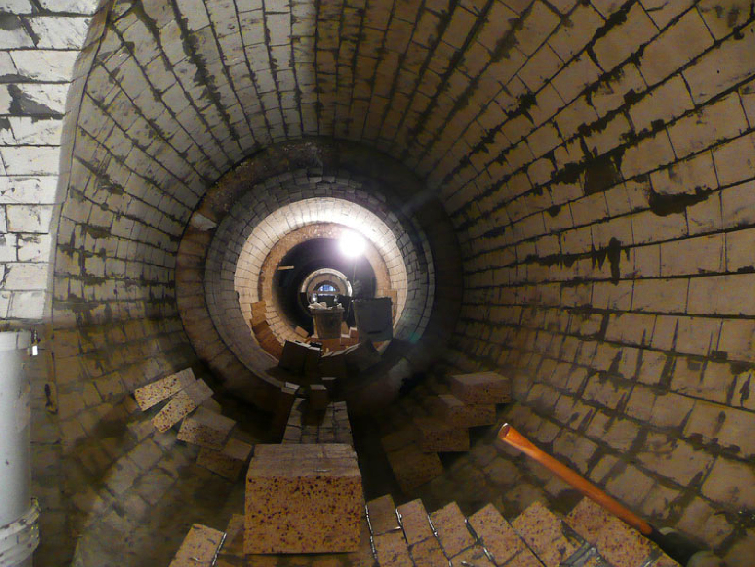 Viiew inside the hot blast main, during its repair and partial bricklaying. Image taken during the last hearth relining of the blast furnace HF6 of Seraing, end 2007.